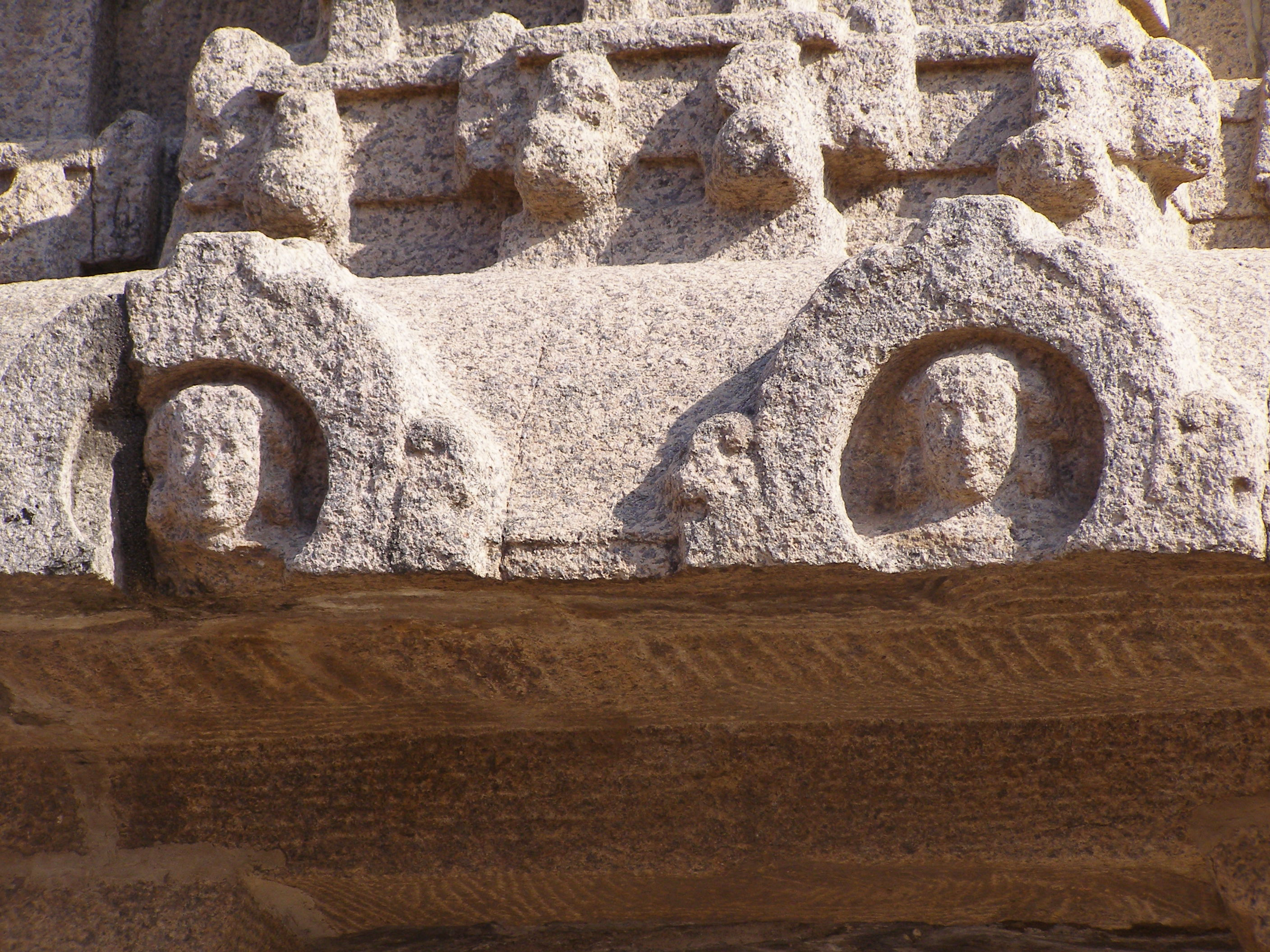 Faces sculpted on Bhima's Ratha